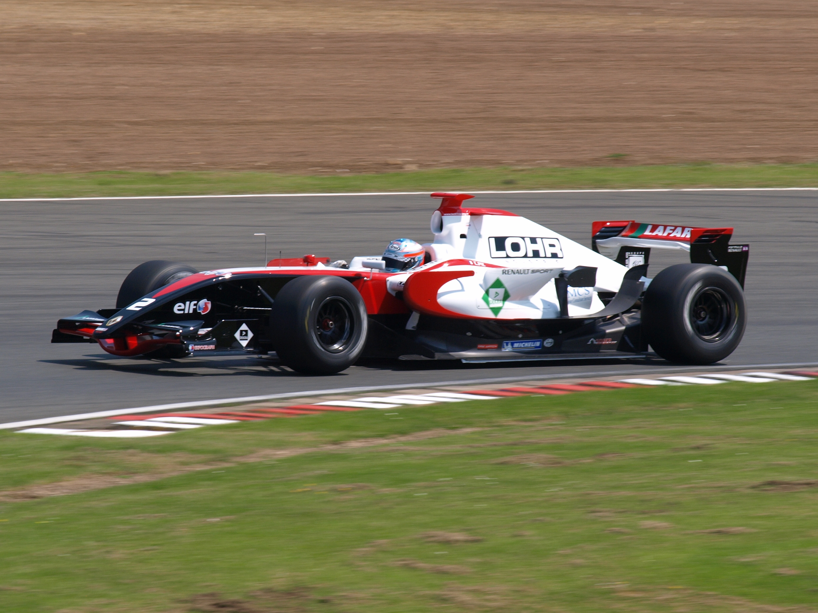 Charles Pic driving for Tech 1 Racing at the Silverstone round of the 2008 World Series by Renault season.